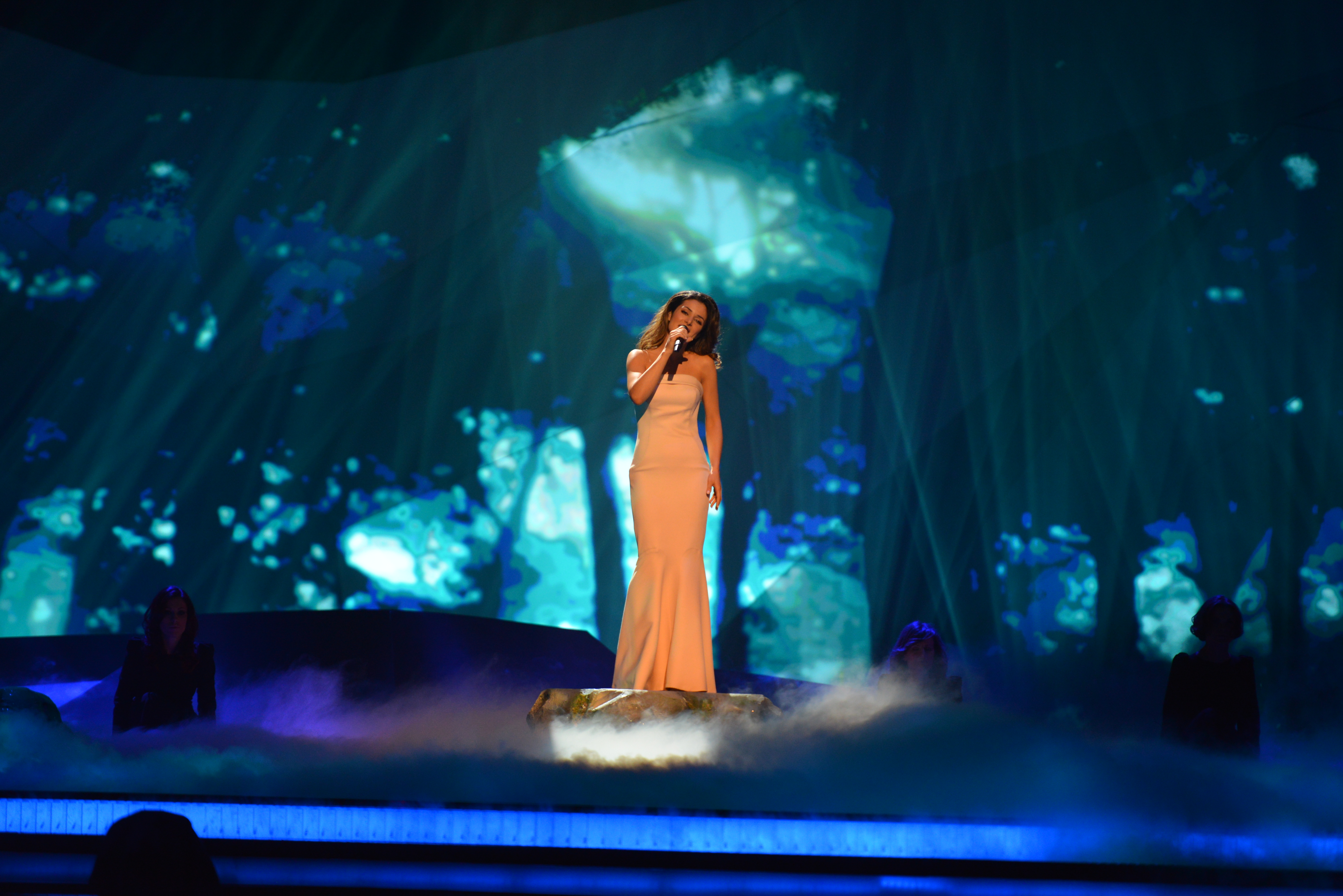 Zlata Ognevich representing Ukraine with the song "Gravity" during the first dress rehearsal of the first semi final of the Eurovision Song Contest 2013 Malmö. (Help translate this text)